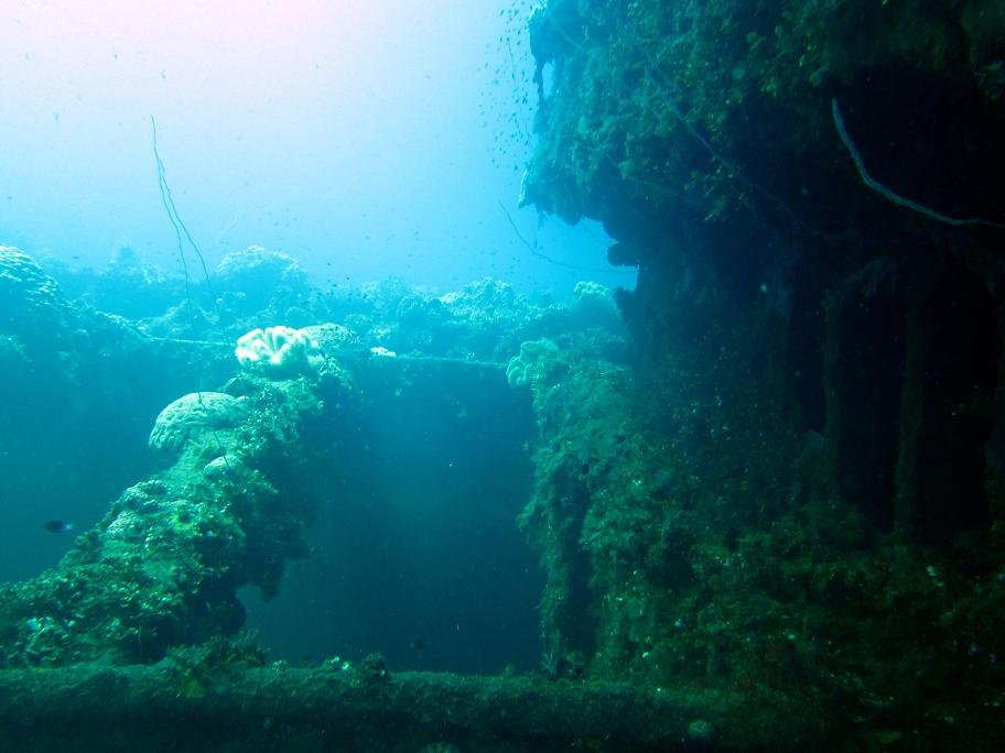 The Fujikawa Maru in Truk Lagoon.